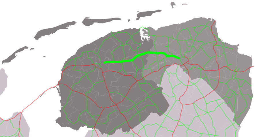 Map of Friesland and Groningen with Dutch provincial road no. 355